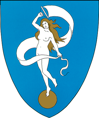 Coat of arms of the Stadt (town) Glückstadt in Schleswig-Holstein, Germany.